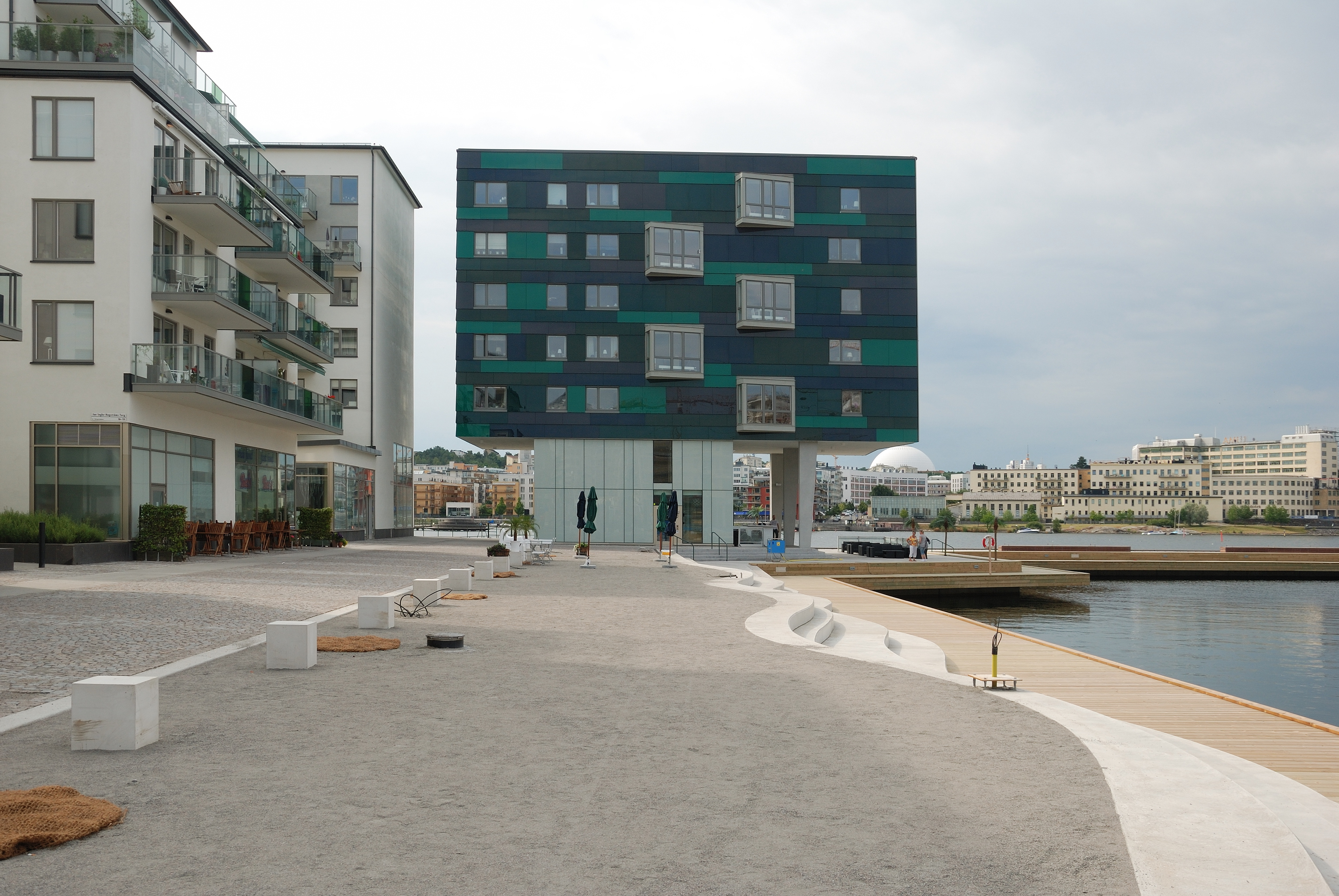 Jan Inghe-Hagströms torg, Stockholm